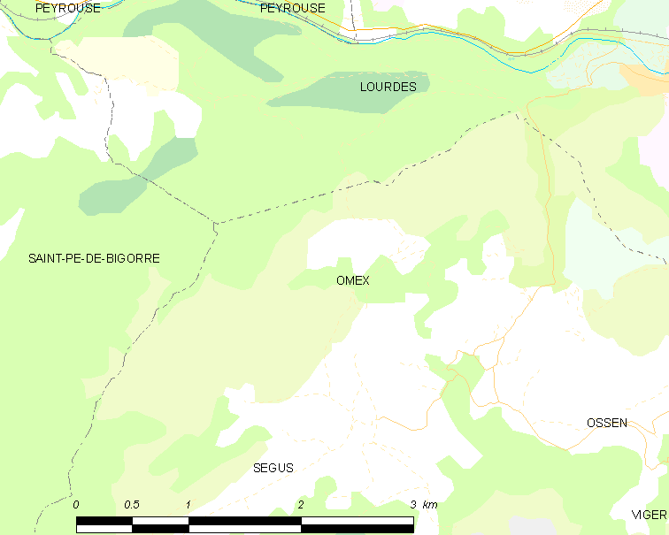 Map of French municipality